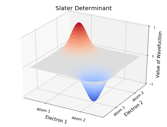 3-D Plot of a Slater-Determinant wavefunction for two electrons moving in one dimension